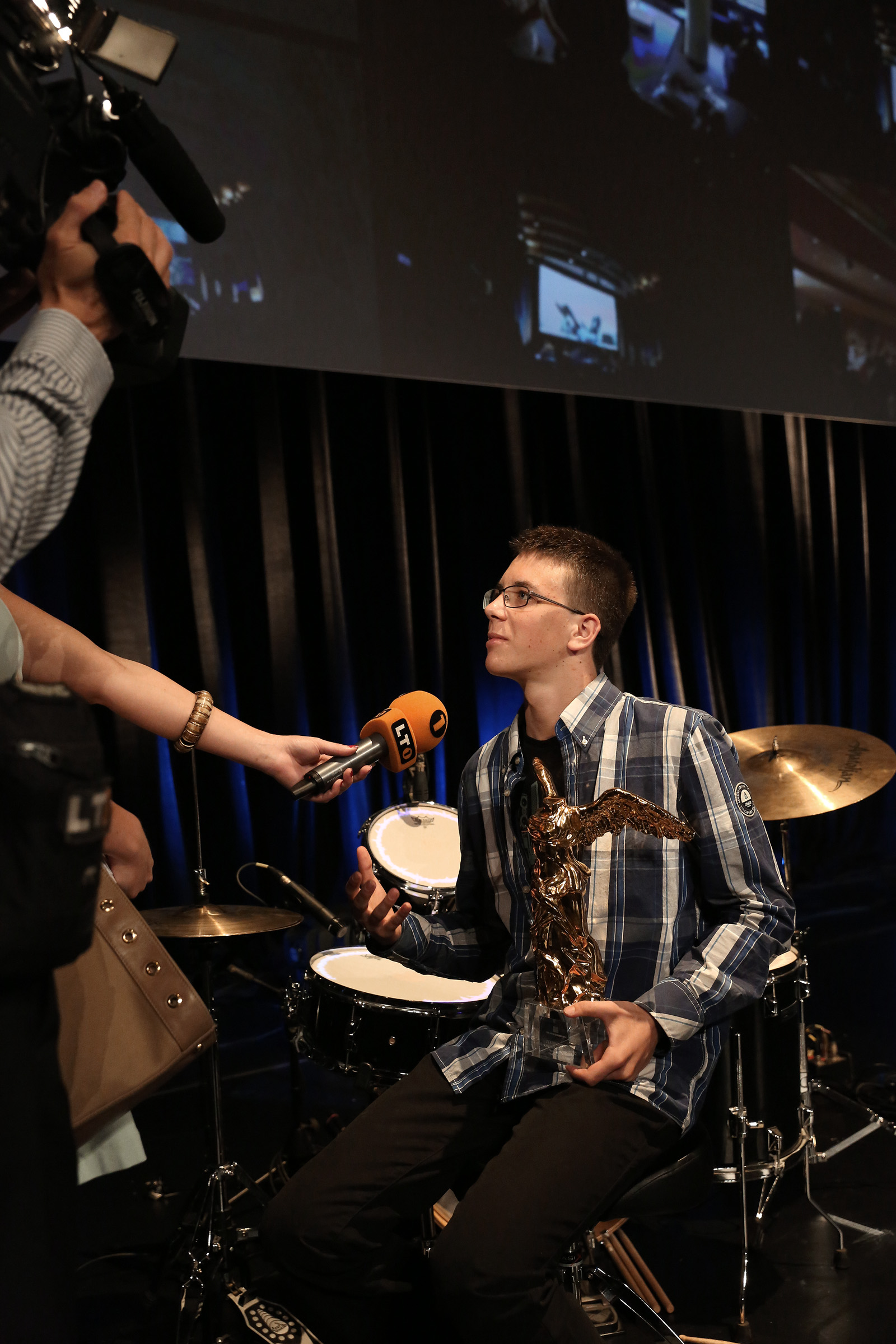 Dominik Koller ("Visual:Drumset") with his Golden Nica of the Prix Ars Electronica 2013 in the category u19 – freestyle computing; Brucknerhaus, Linz, Upper Austria.